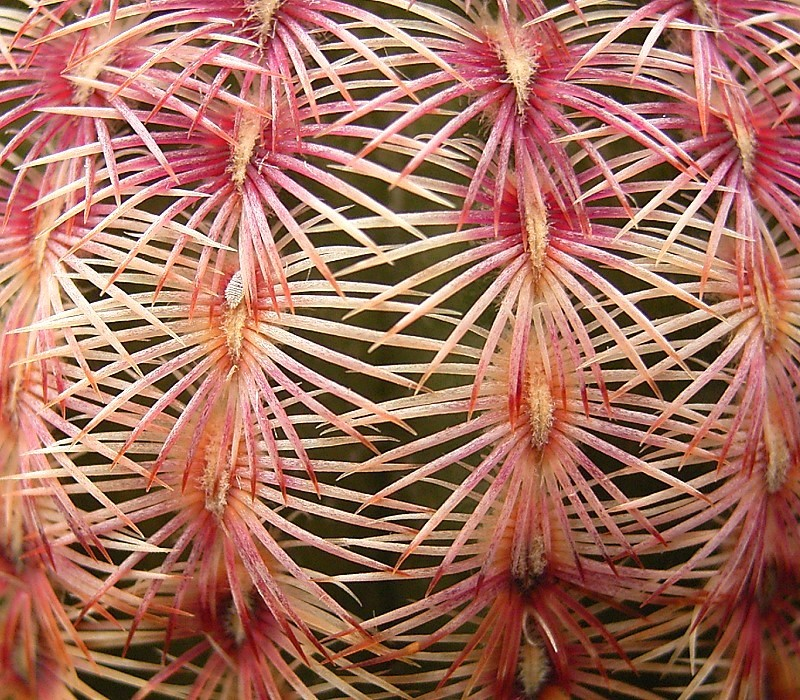 Echinocereus rigidissimus ssp. rubispinus - Note the small mealy bug.